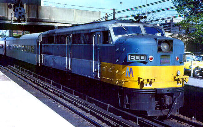 An ALCO FA-2 in passenger service on the Long Island Railroad in the 1970s. (This was the second life for this FA-2, ex PC & NYC #1302, having its prime mover derated to 600hp, its traction motors removed and its controls modified to support 'pusher' service with a EMD GP-38-2).